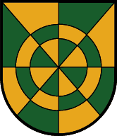 Source: "Fahnen-Gärtner GmbH, Mittersill" This file depicts a coat of arms. The composition of coats of arms are generally public domain with respect to copyright laws, and may be reproduced freely. This corresponds to the international traditional usage, and is explicitly stated in some national copyright laws. Some compositions, of more recent origin, may be copyrighted. This is not a valid license as such, being a "public domain" statement for the coat of arms definition only. It must be completed with the copyright tag associated to the picture creation. See Commons:Coats of arms for further information. Please note that this applies only to the coat of arms definition (composition / description). The representation of a coat of arms is an artistic creation, subject as such to copyright laws. Restriction of use - Legal notice: Most of the time, the usage of coats of arms is governed by legal restrictions, independent of the status of the depiction shown here. A coat of arms represents its owner. Though it can be freely represented, it cannot be appropriated, or used in such a way as to create a confusion with or a prejudice to its owner. Usage on Commons: Please provide licence information for the coat of arm representation, information for the author of the picture, and the source if not self-made work. This image is in the public domain according to Austrian copyright law because it is part of a law, ordinance or official decree issued by an Austrian federal or state authority, or because it is of predominantly official use. (§7 UrhG) To uploader: Please provide where the image was first published and who created it.